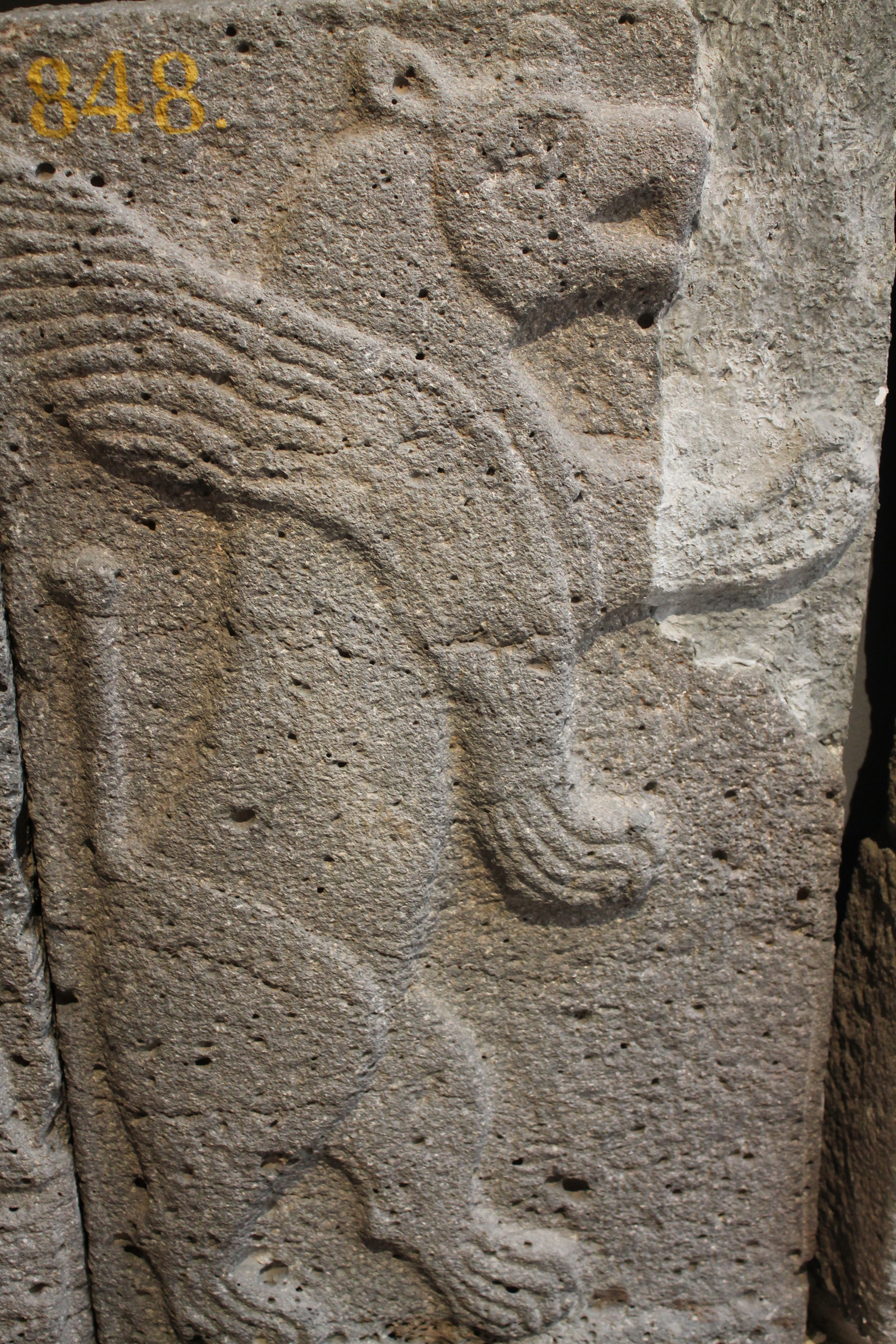 Hittite Griffin in Istanbul Archaeological Museum